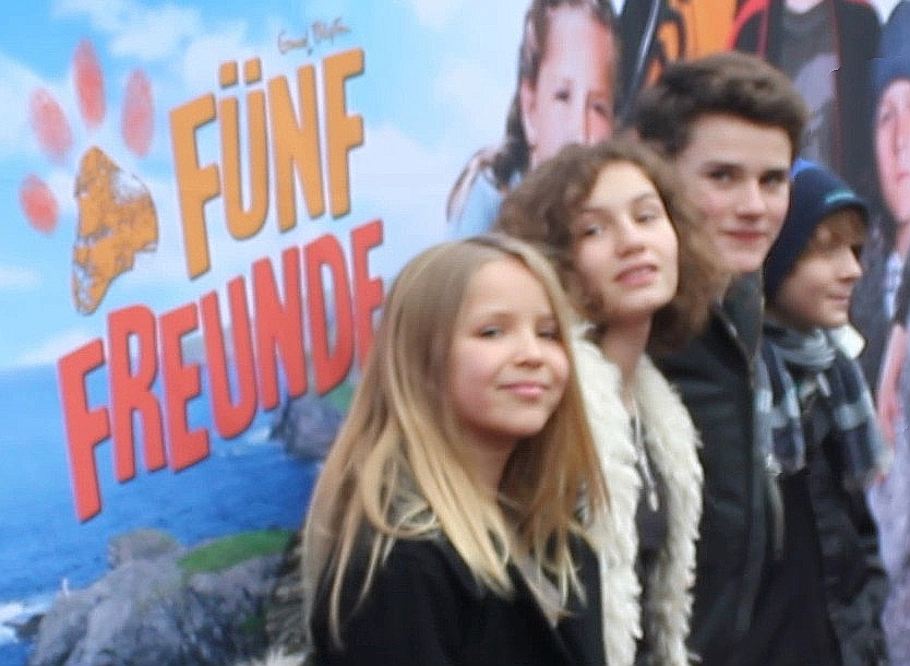 Fünf Freunde (Gruppenbild von Schleswigpremiere)